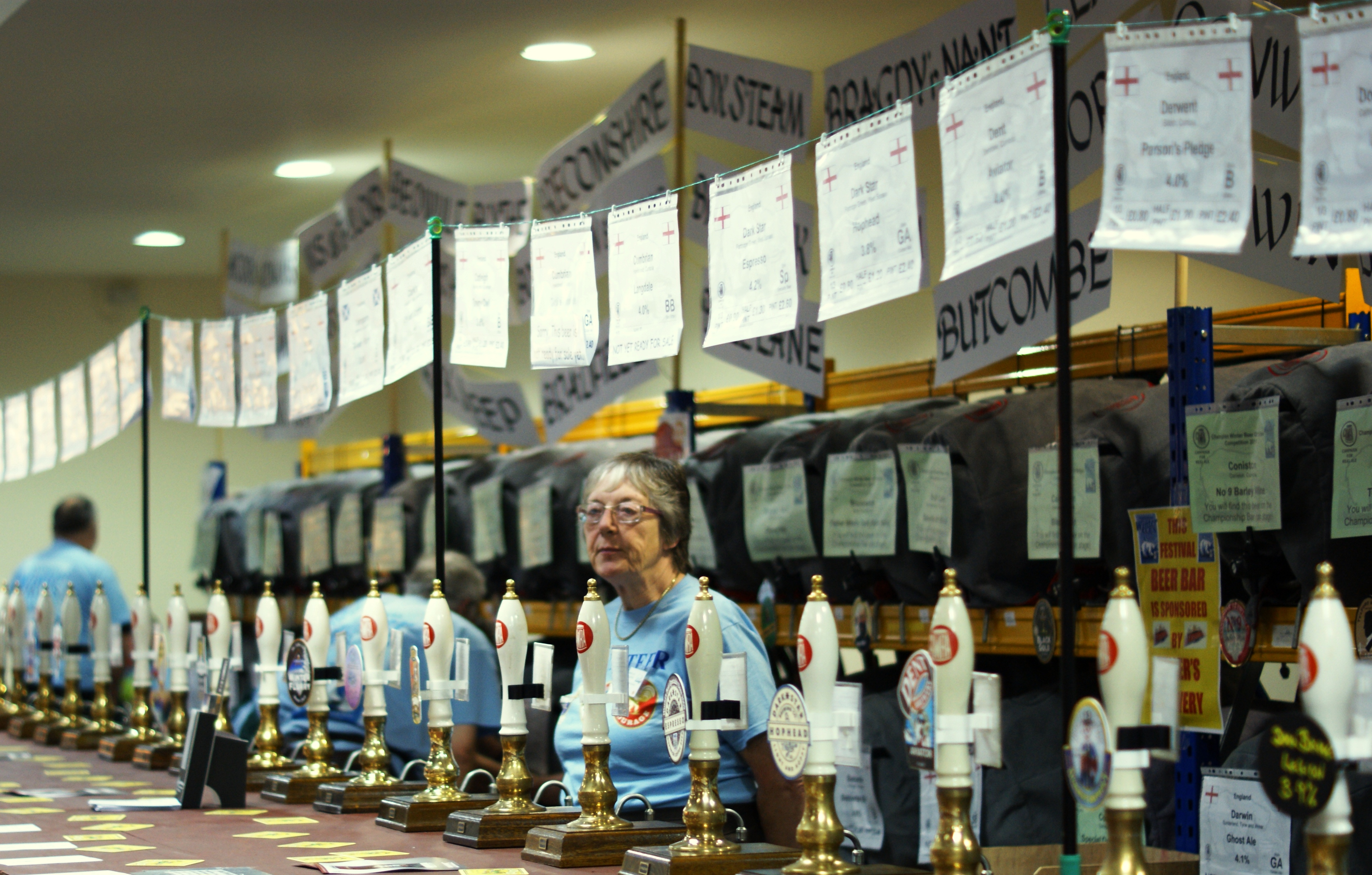 National Winter Ales Festival, Manchester, on Wednesday the 19th of January 2011